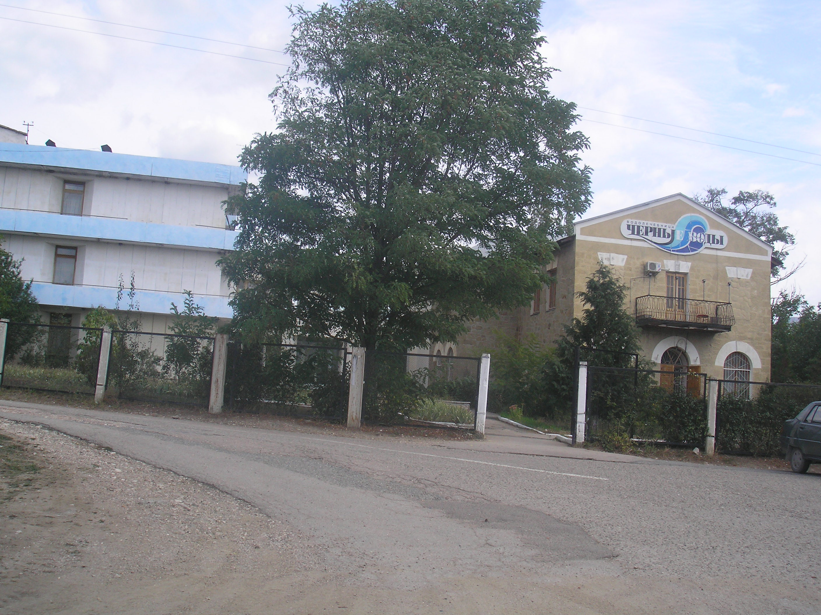 Village Aromat, Bakhchisaray Raion, hydropathic.